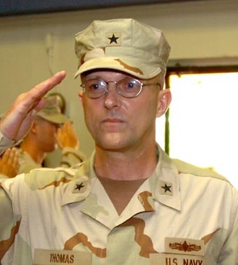 Navy Rear Adm. David M. Thomas Jr., top, salutes during Tuesday’s change of command ceremony at the Windjammer. Left, Thomas and outgoing Guantanamo commander Rear Adm. Mark H. Buzby salute the colors. – JTF Guantanamo photos by Navy Petty Officer 1st Class Joshua Treadwell and Army Staff Sgt. Emily Russell